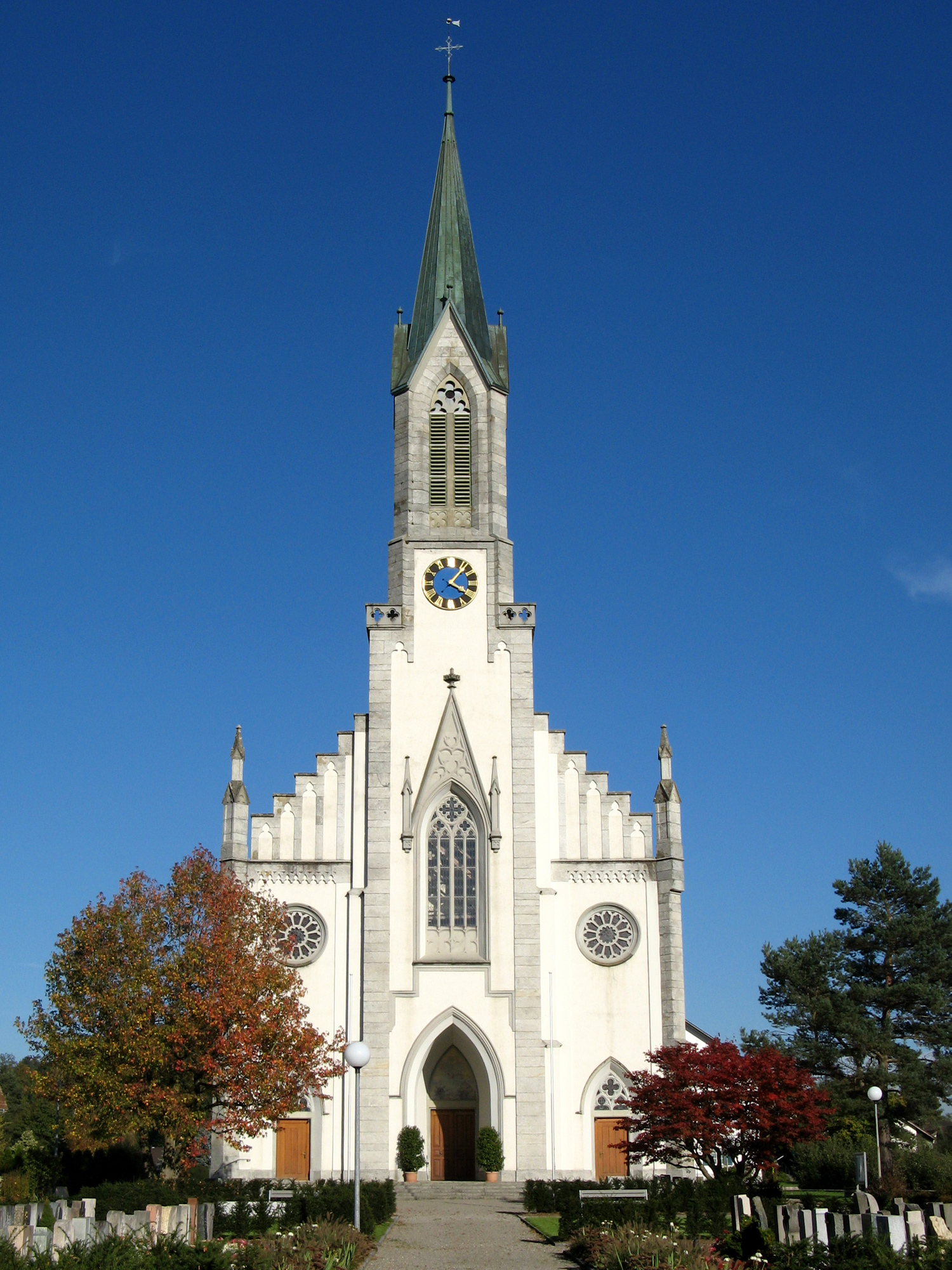 Front view of St George's parish church in Bünzen